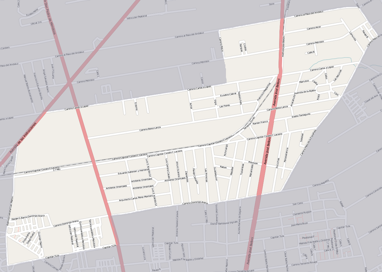 Street map of Manga, Montevideo, exported from OpenStreetMap. I added shading to delimit the barrio. This map may be incomplete, and may contain errors. Don't rely solely on it for navigation.